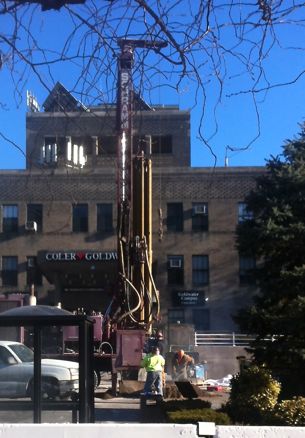 Demolition begins on Goldwater Hospital.